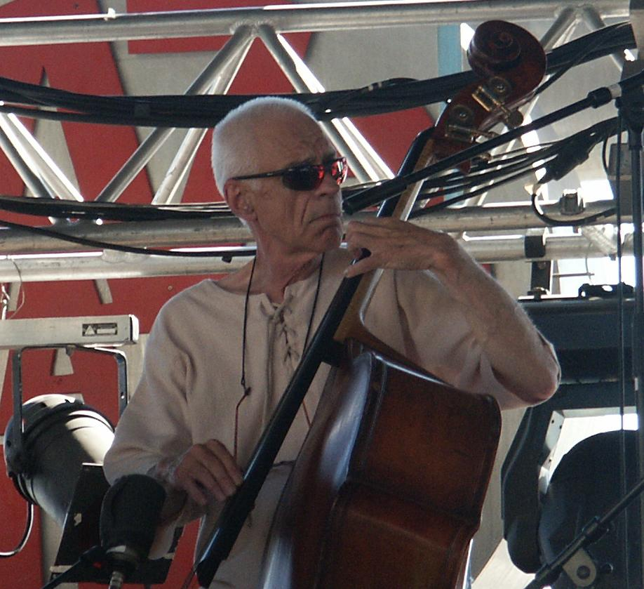 Jazz double-bassist Gary Peacock performing live in July 2003 (cropped version of original)